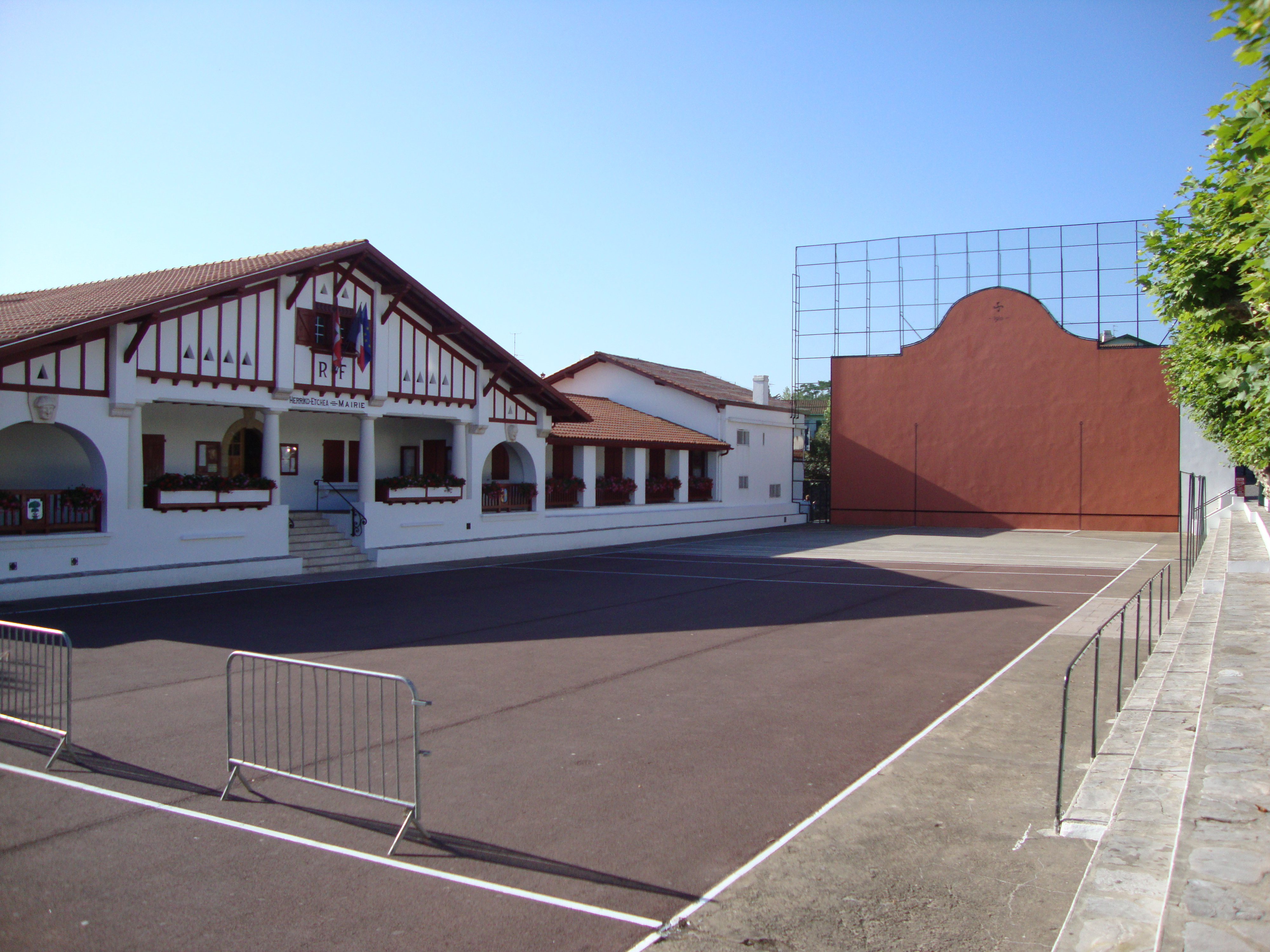 Guéthary (Pyr-Atl., Fr) Town hall and pelota wall